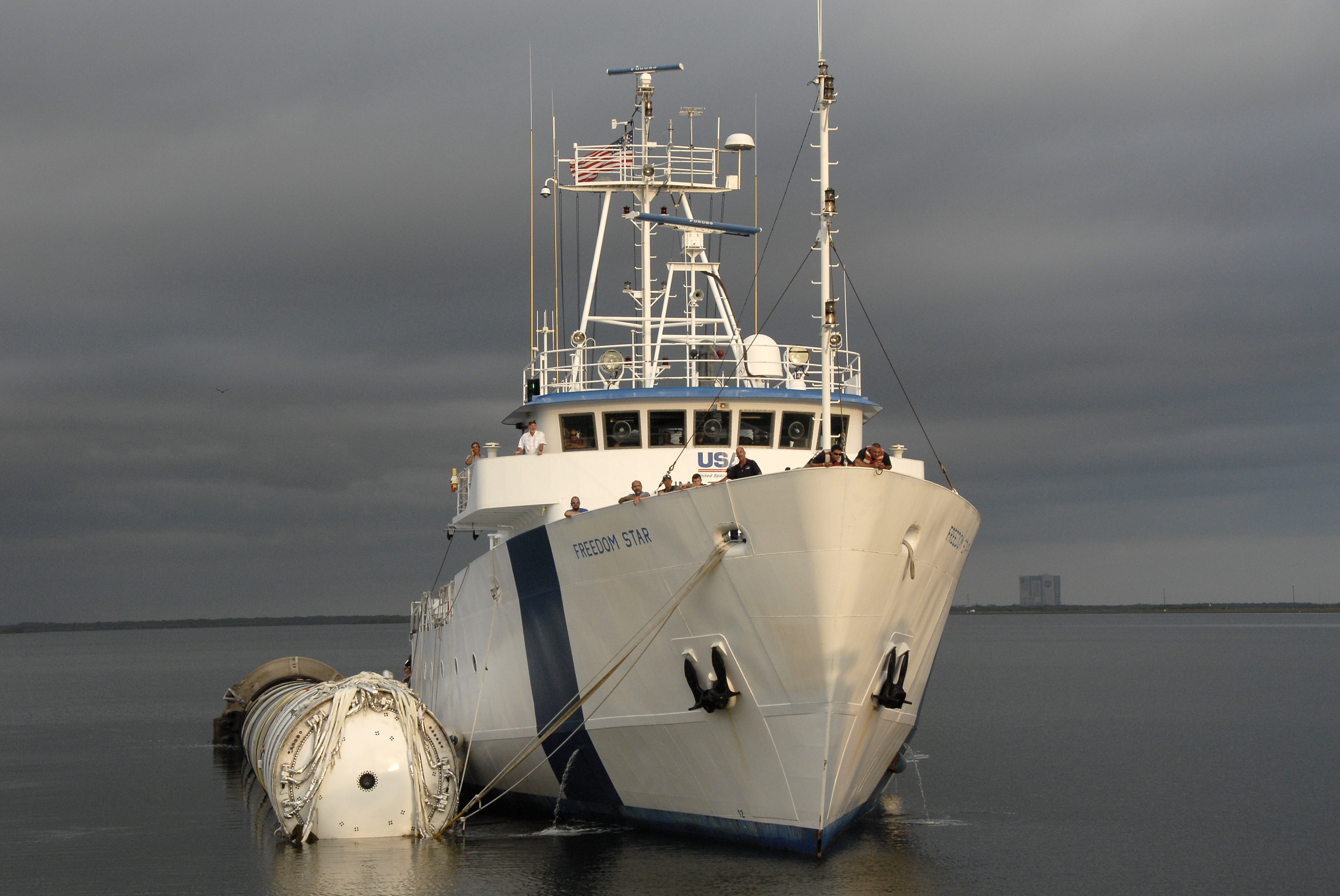 CAPE CANAVERAL, Fla. – The solid rocket booster recovery ship Freedom Star, towing the spent first stage of NASA's Ares I-X rocket, traverses the Banana River along the shore of Cape Canaveral Air Force Station in Florida. Across the river, in the background, is the Vehicle Assembly Building at NASA's Kennedy Space Center. Following the launch of the Ares I-X flight test, the booster splashed down in the Atlantic Ocean and was recovered. Liftoff of the 6-minute flight test was at 11:30 a.m. EDT Oct. 28. This was the first launch from Kennedy's pads of a vehicle other than the space shuttle since the Apollo Program's Saturn rockets were retired. The parts used to make the Ares I-X booster flew on 30 different shuttle missions ranging from STS-29 in 1989 to STS-106 in 2000. The data returned from more than 700 sensors throughout the rocket will be used to refine the design of future launch vehicles and bring NASA one step closer to reaching its exploration goals. For information on the Ares I-X vehicle and flight test, visit